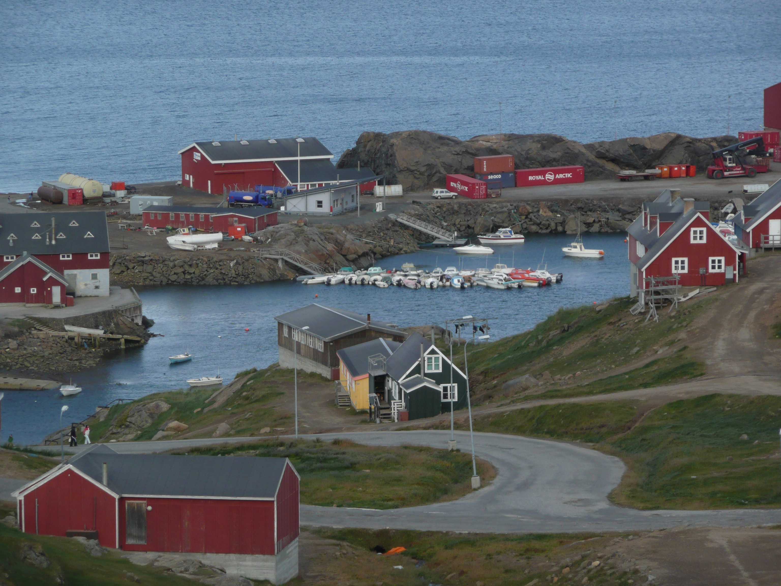 Harbour in Tasiilaq, Greenland